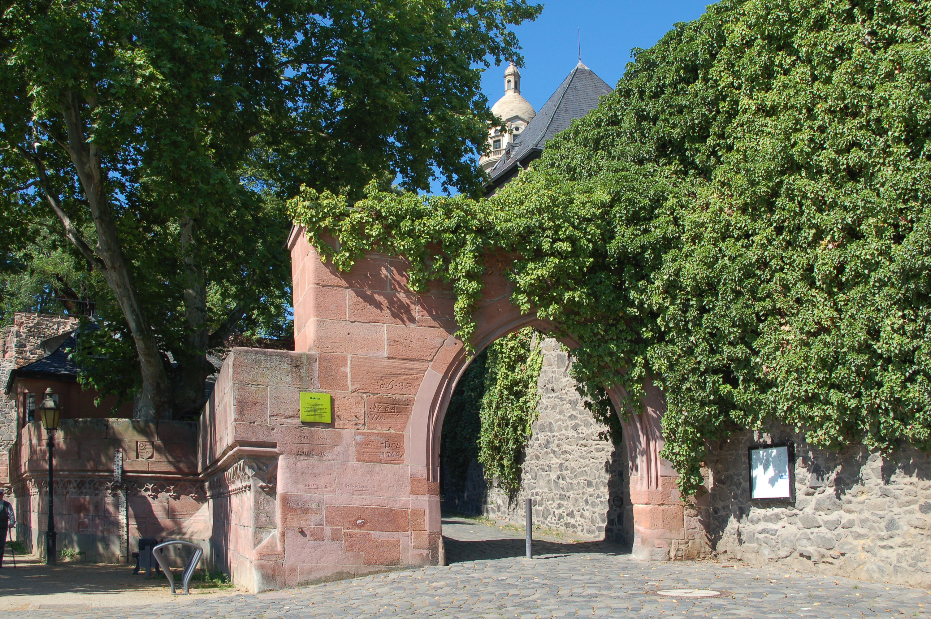 Main river gate in Frankfurt-Höchst